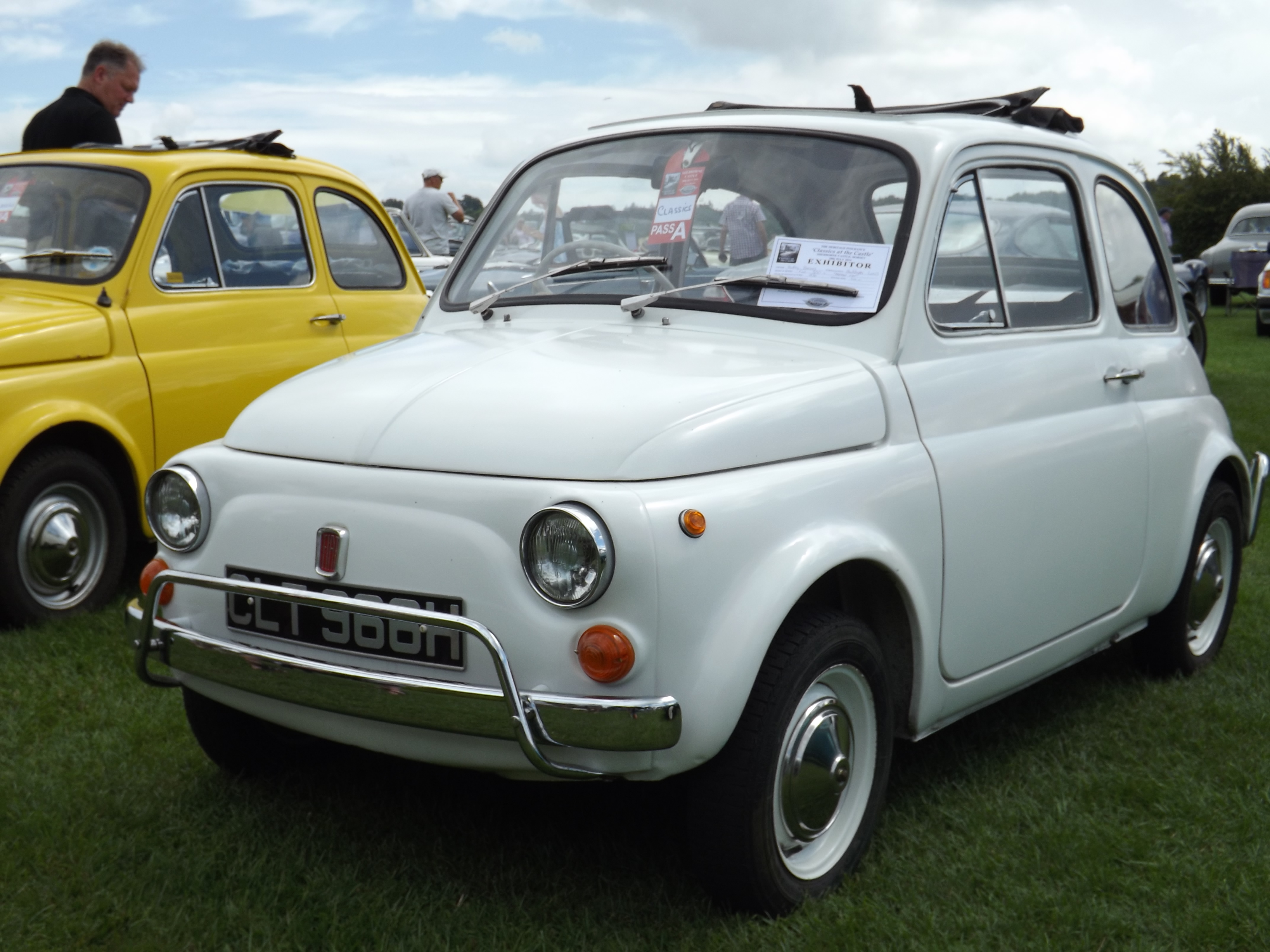 Spotted at "Classics at the Castle", Sherborne, Dorset on 20th July 2014. I'd like one for my living room!